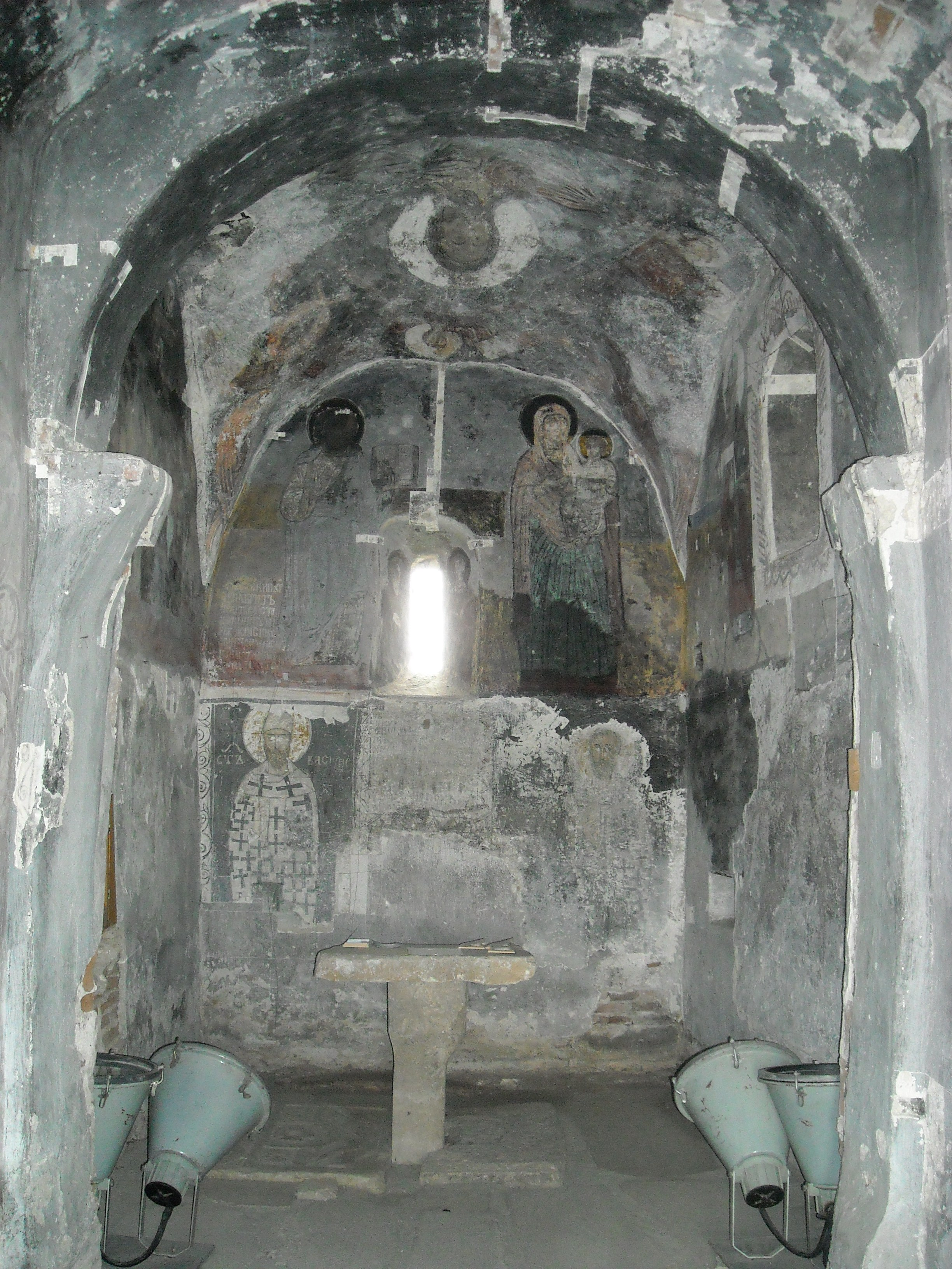 sanctuary of the Streisângeorgiu Orthodox Church